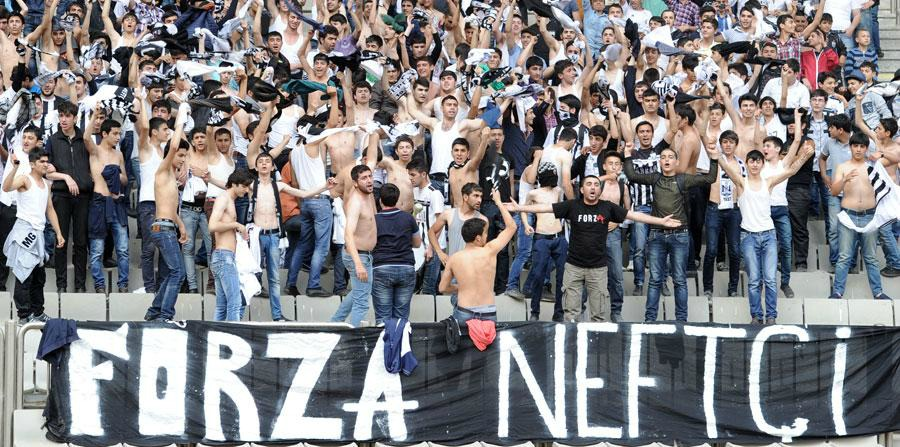 neftchi